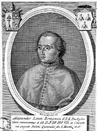 Kardinal Alessandro Lante Montefeltro della Rovere (1762-1818)